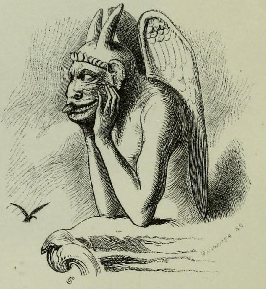 Image on page 28 of Scrambles amongst the Alps